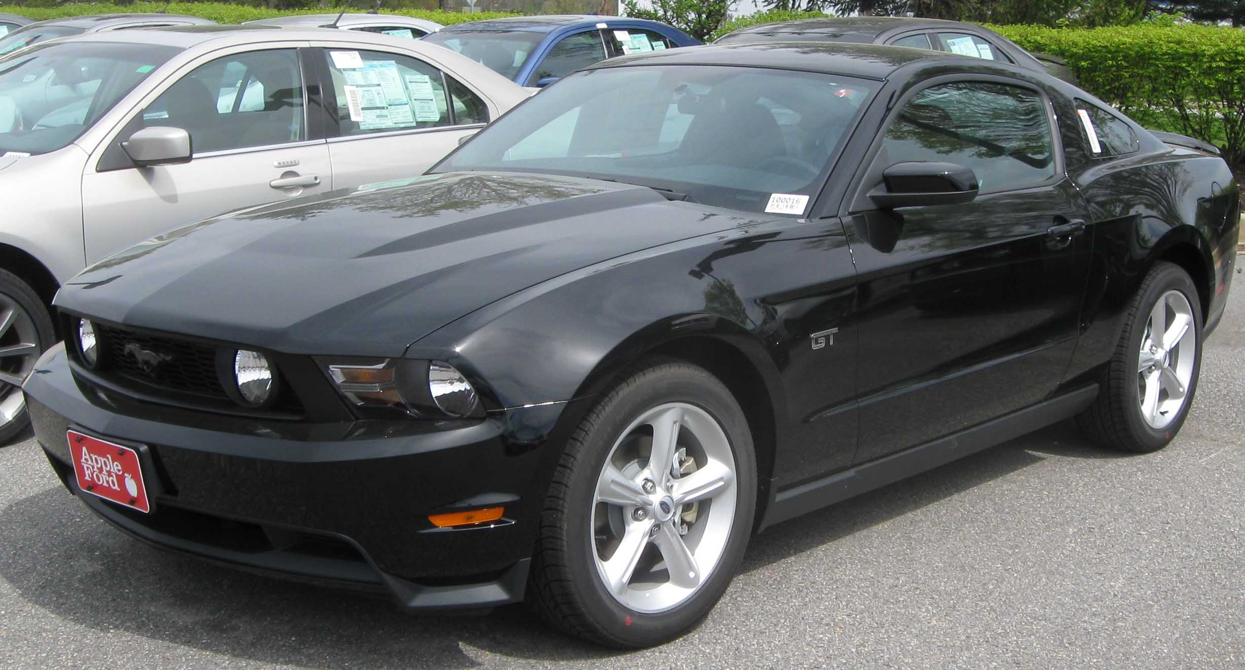 2010 Ford Mustang photographed in Columbia, Maryland, USA.